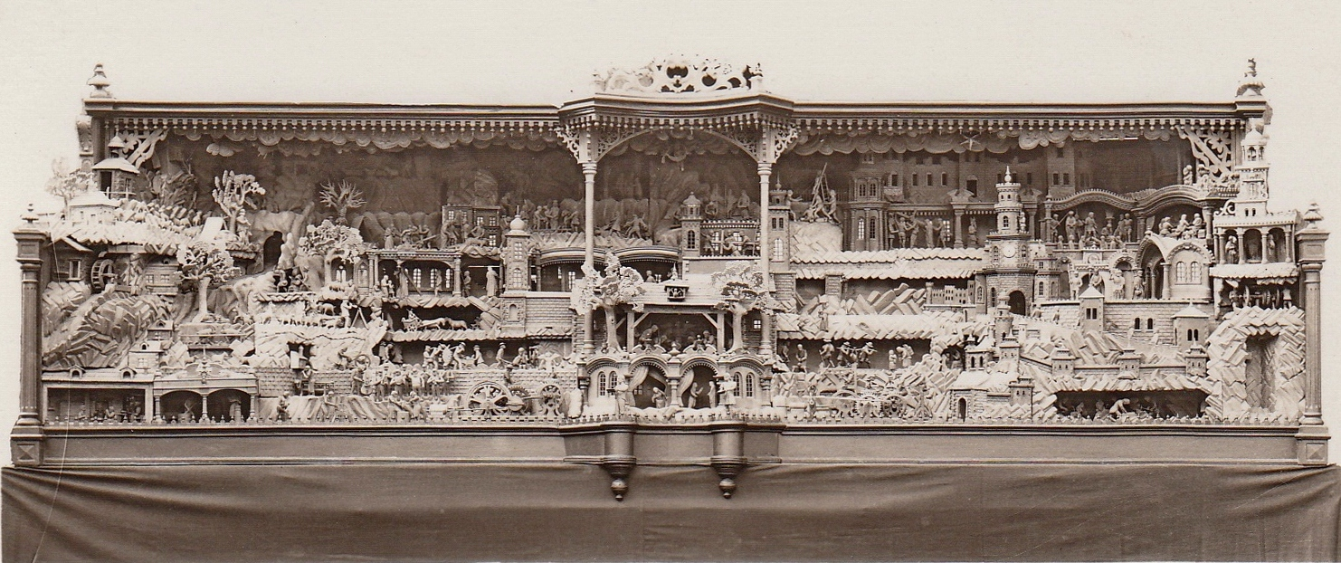 Probošt's mechanical Christmas crib, ca 1935-1939